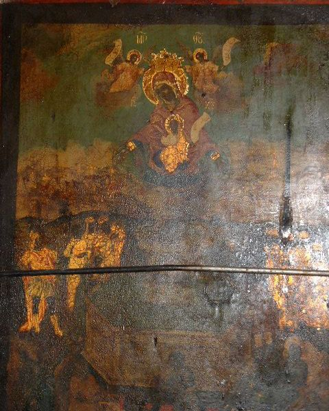 One of the oldest Icons of Virgin Mary on Kičevo Monastery